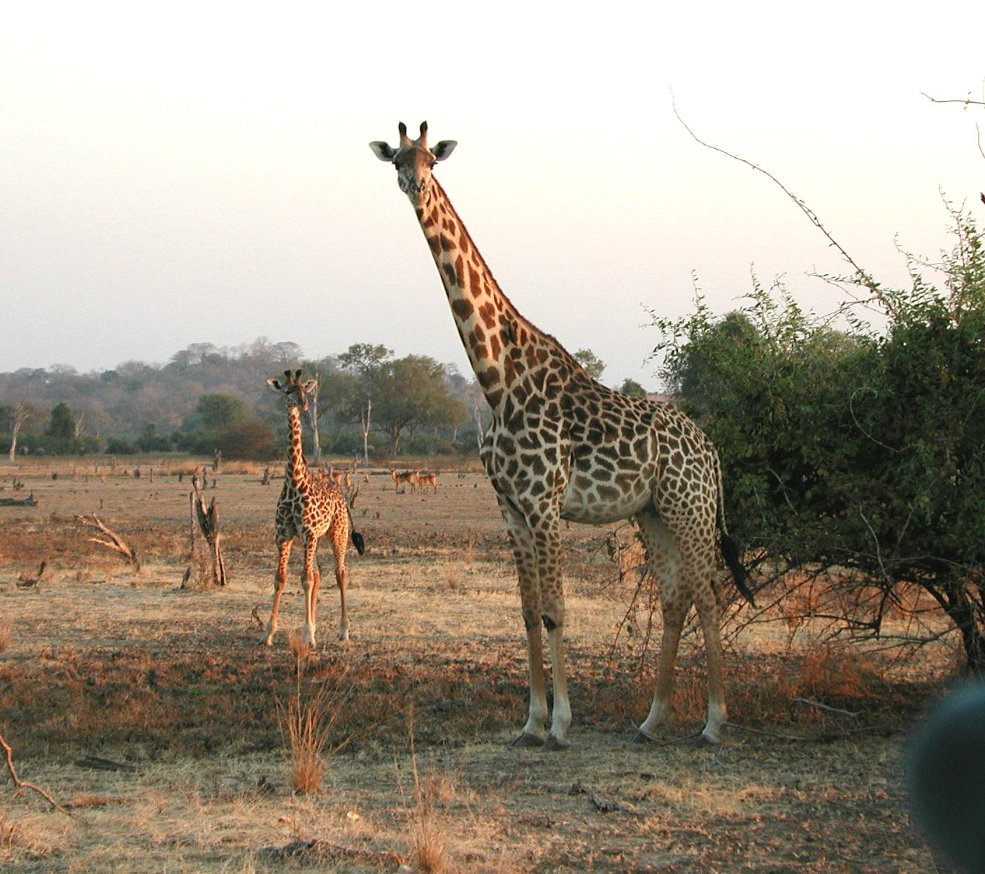 A Giraffe mother and her calf in the South Luangwa National Park of eastern Zambia